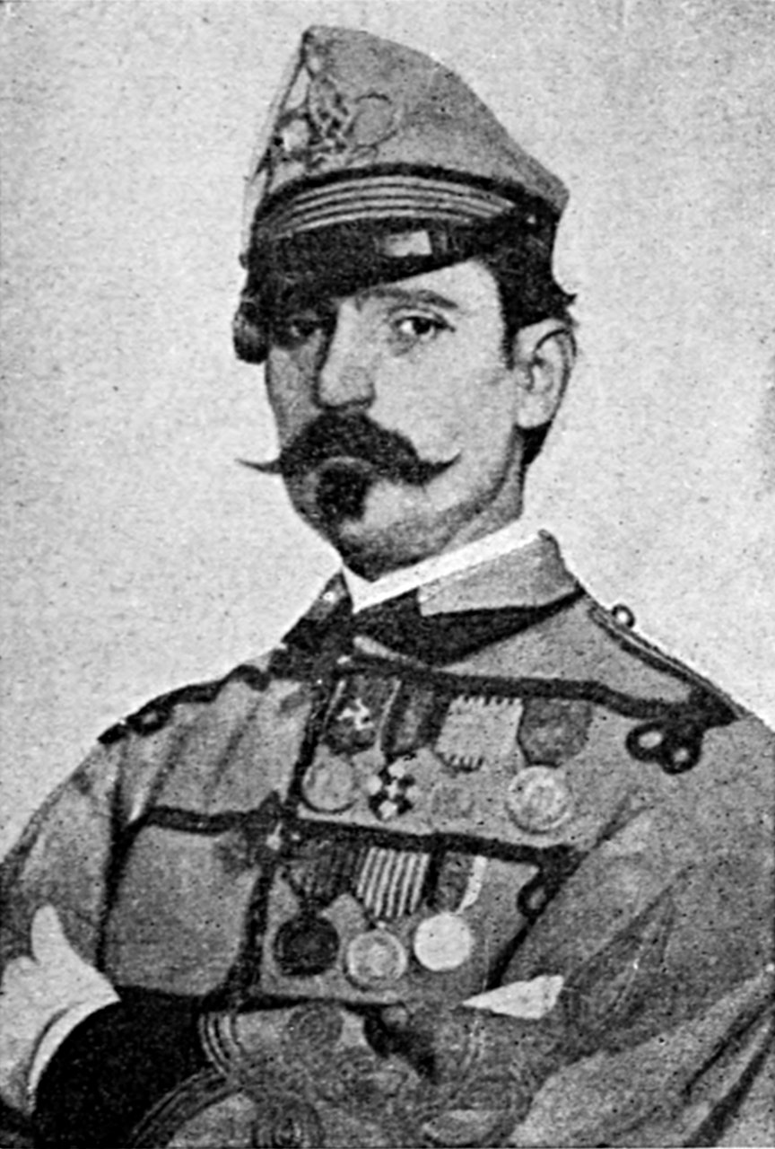 Illustration from book Storia dei Mille by Giuseppe Cesare Abba - Giovan Maria Damiani